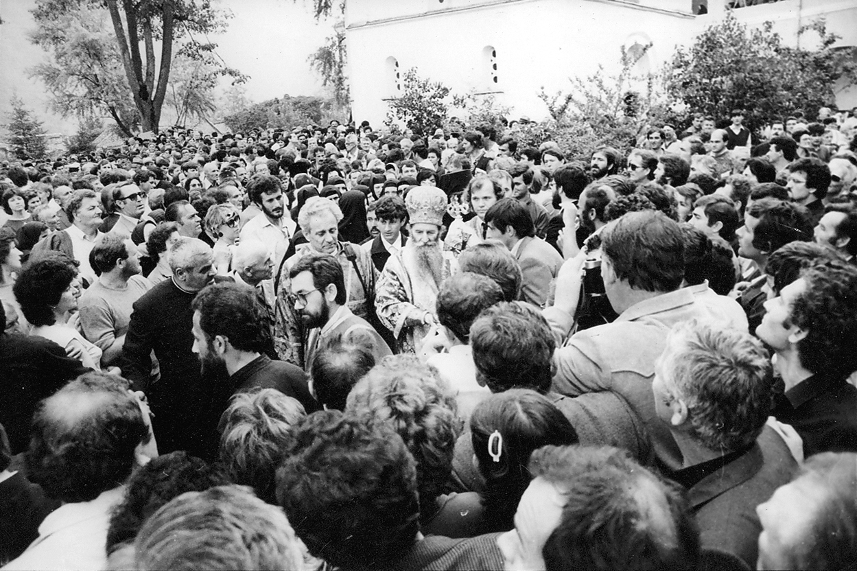 German, 43rd Patriarch of the Serbian Orthodox Church on the celebration "8 centuries of Studenica monastery", May 18, 1986